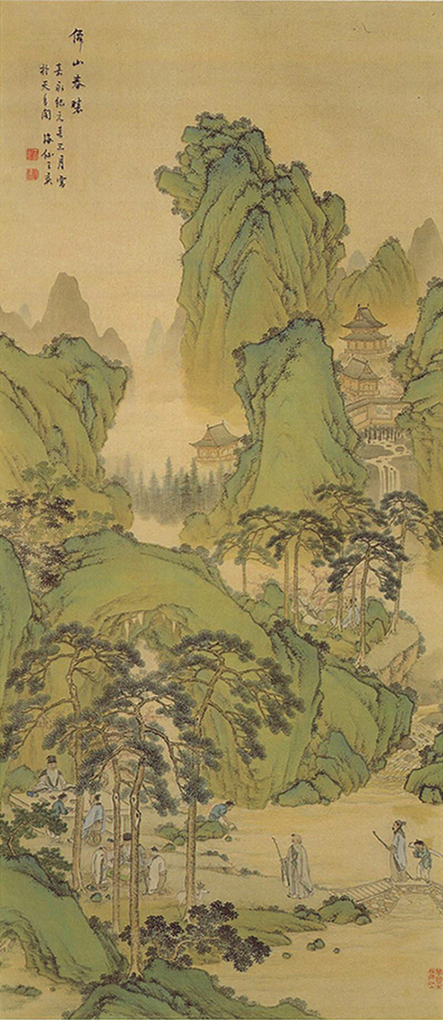 Spring Dawn of the Hermit-living Mountains,color on paper,hanging scroll 仙山春暁図 絹本着色